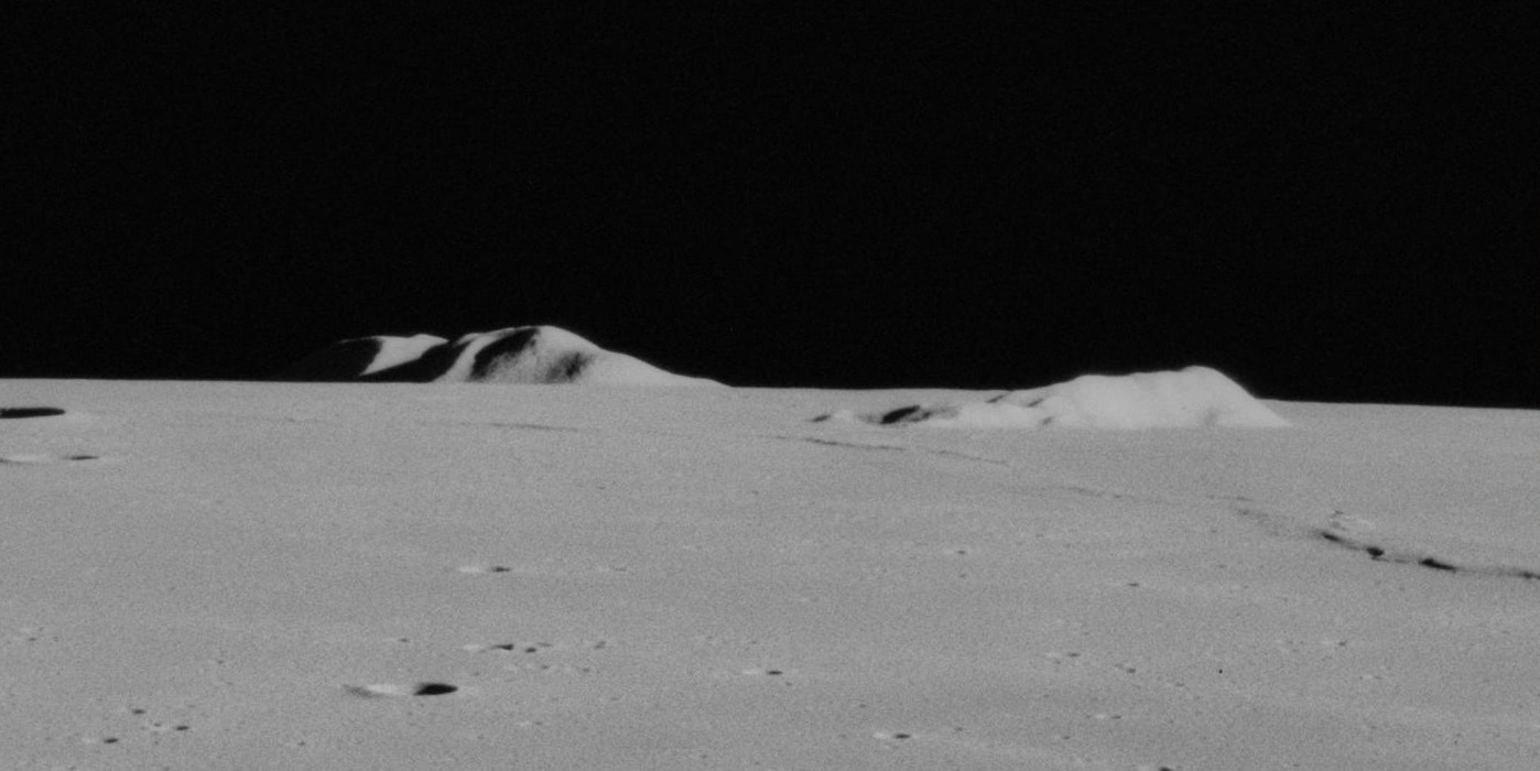 Mons Pico (left of center), and Mons Pico Beta to southeast (right of center), Mare Imbrium, on the moon. Sun elevation 17 deg., spacecraft altitude 103 km.